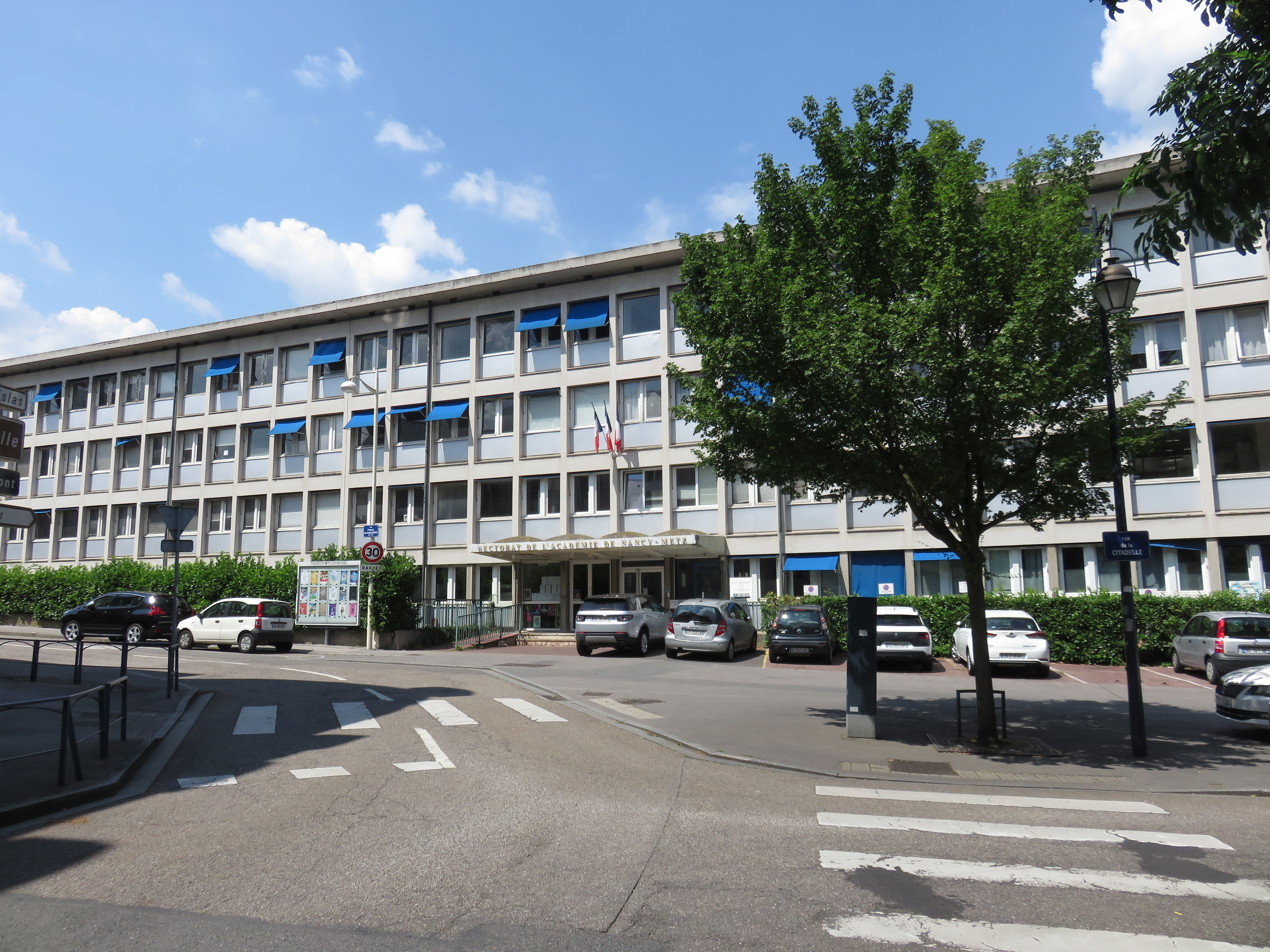 Rectorate of the Academy of Nancy-Metz in Nancy, France in 2018